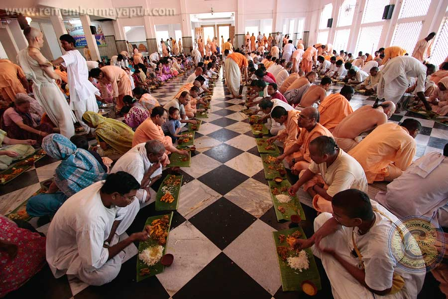 Lord Krishna's devotees honor prasadam in Sri Dham Mayapur